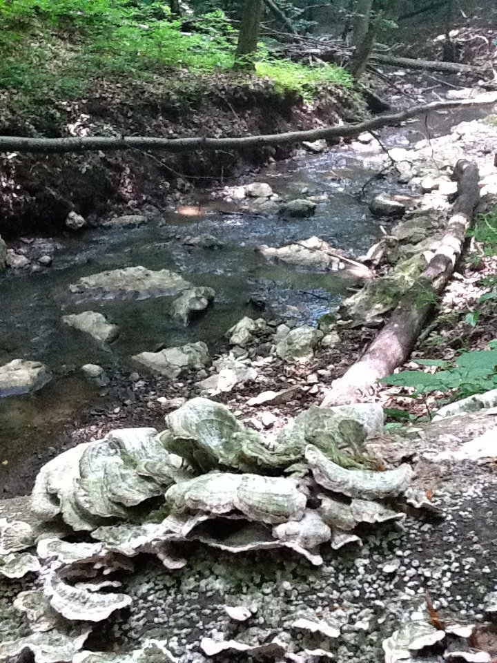 Hidasi valley, southern Hungary, Mecsek mountains, near Hosszúhetény village. Brook, fallen tree, mushroom.Unknown hidasi-völgy a mecsekben, hosszúhetény közelében. a patak völgye, gombák borította kidőlt fával.